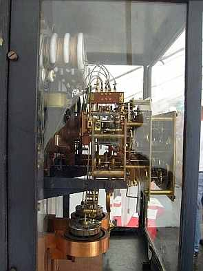 Aron energymeter